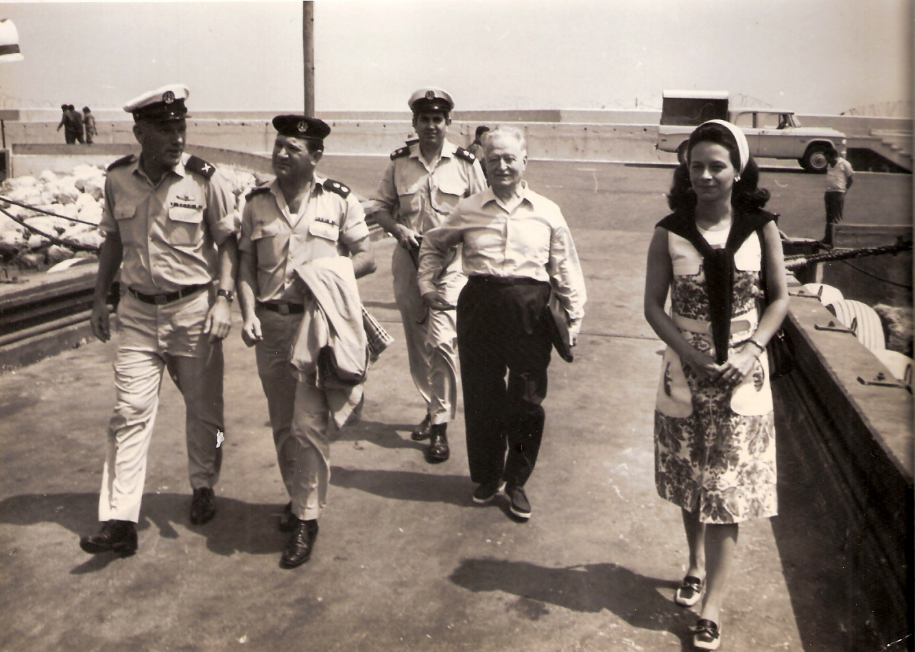 Amio and daughter visiting Haifa IN